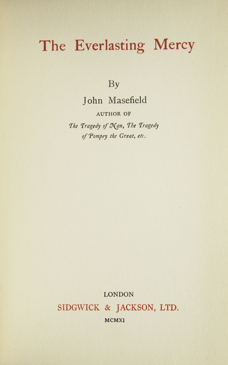 The everlasting-mercy-first-edition title page